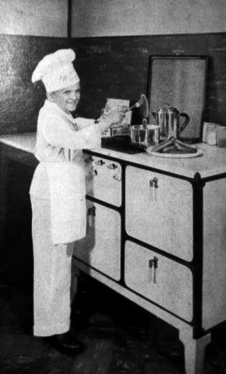 Photo of Meinhardt Raabe as "Little Oscar". This was an advertising character for the Oscar Mayer company. Raabe was the first person to portray the character for the meat company beginning in 1936. Raabe also was the Munchkin Coroner in The Wizard of Oz.